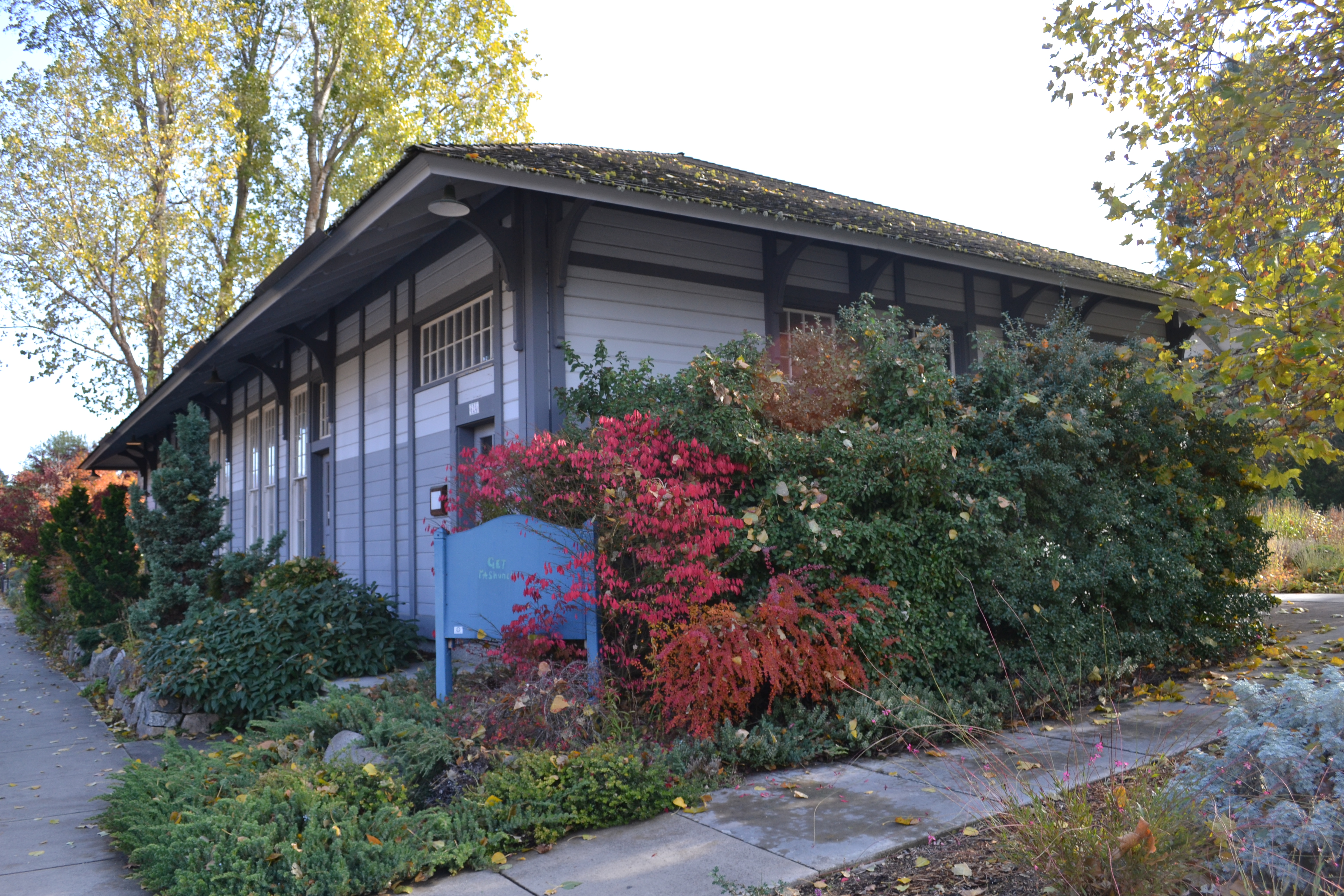 Depot Hotel, south wing, in Ashland in the U.S. state of Oregon. The structure is all that remains from Ashland's historic railway district.